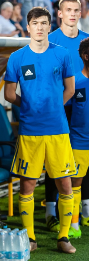 Eldor Shomurodov with FC Rostov before the game against FC Akhmat Grozny.